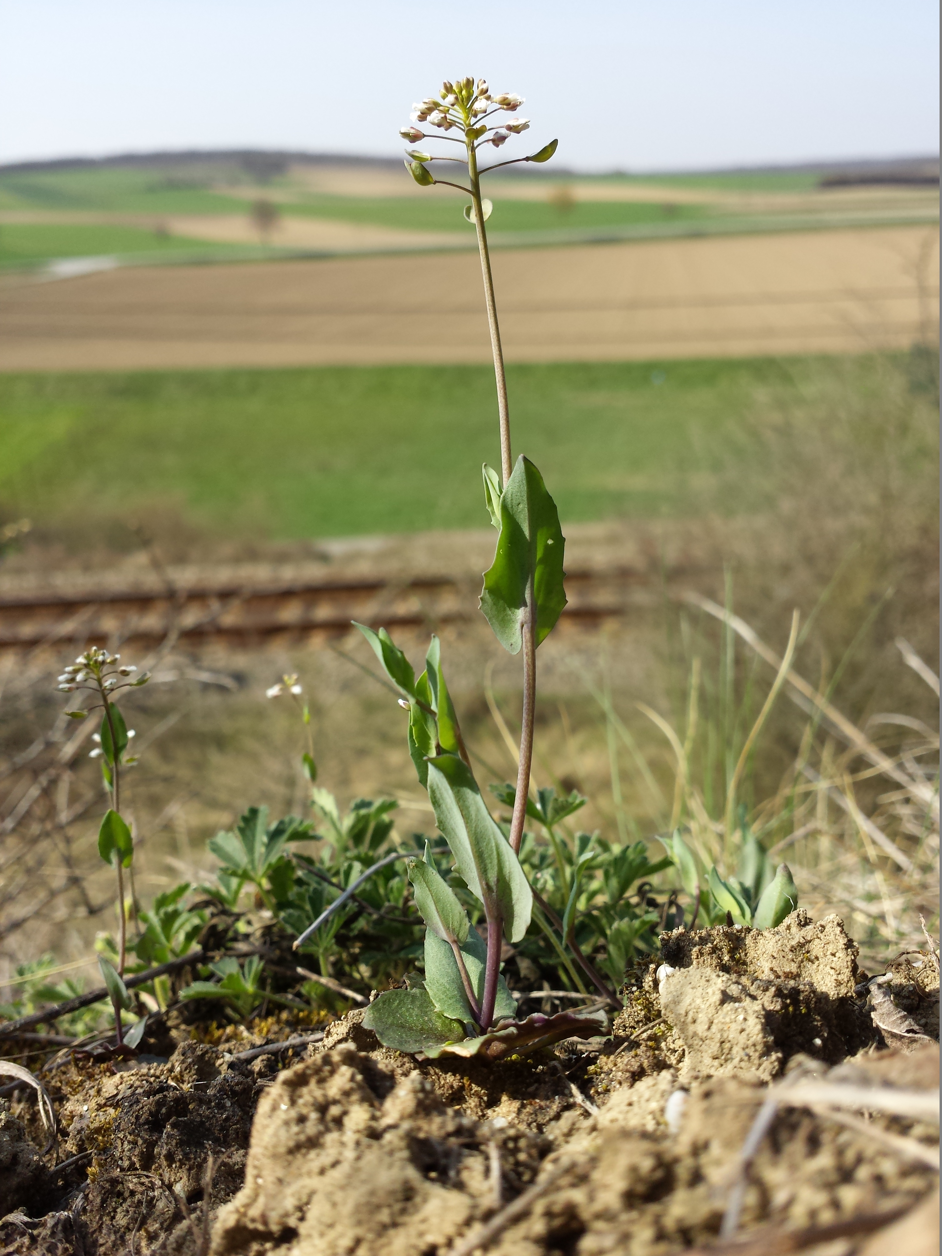 Habitus Taxonym: Microthlaspi perfoliatum ss Fischer et al. EfÖLS 2008 ISBN 978-3-85474-187-9 Location: semi-dry grassland between Groß-Schweinbarth and Bad Pirawarth, district Gänserndorf, Lower Austria - ca. 180 m a.s.l. Habitat: semi-dry grassland